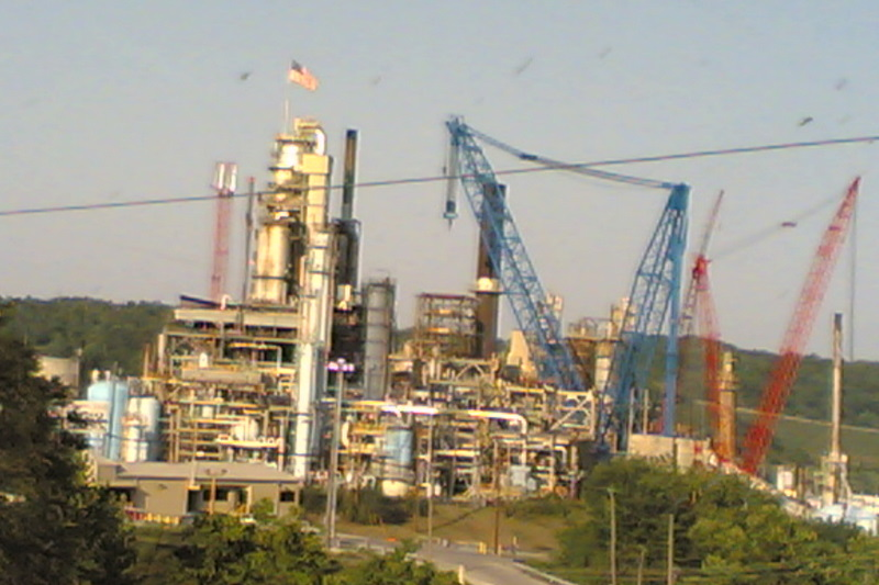 Marathon Oil Refinery located on United States Route 23 at Catlettsburg, Boyd County, Kentucky, United States